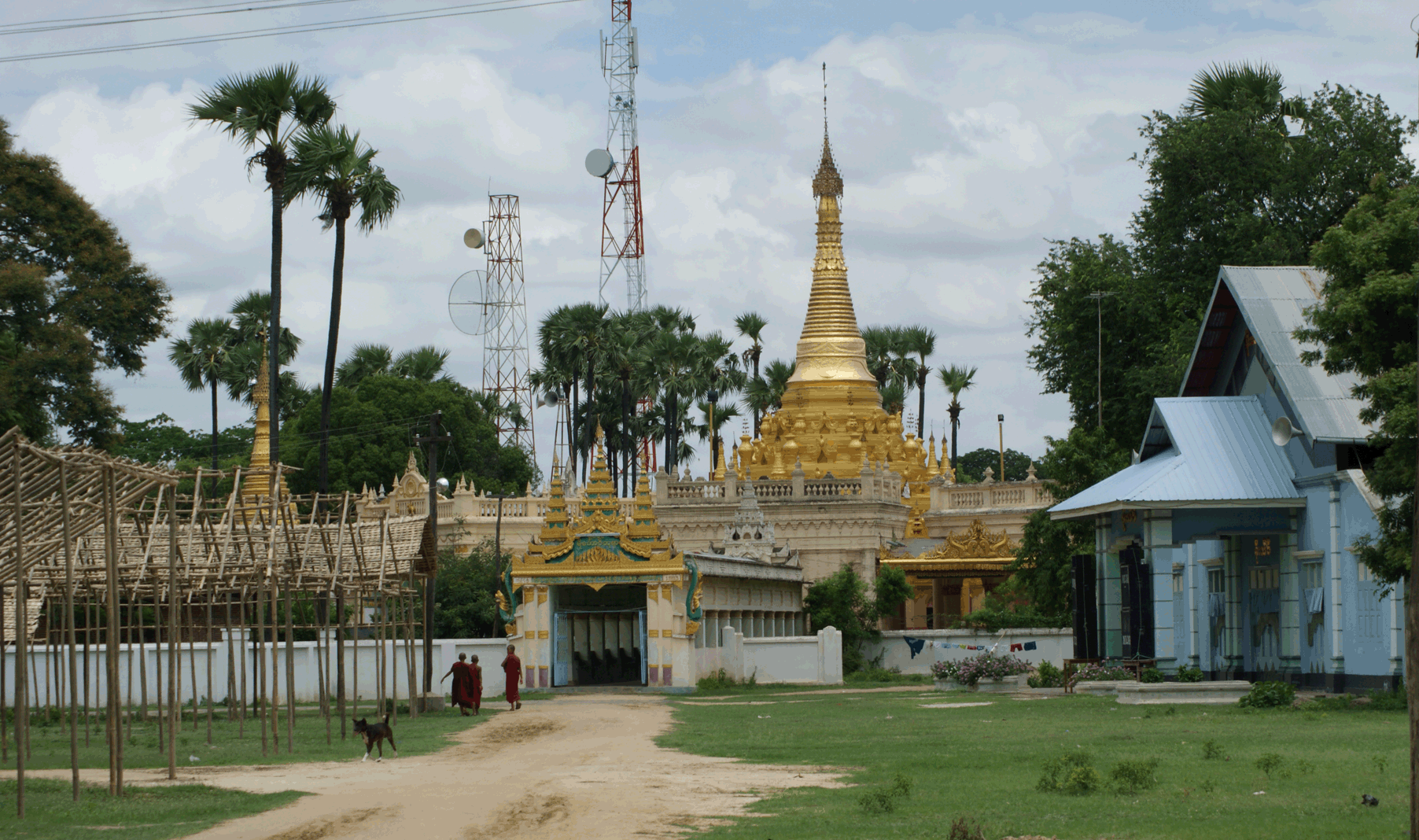 ရှင်ပင်မိုးကောင်းစေတီတော်